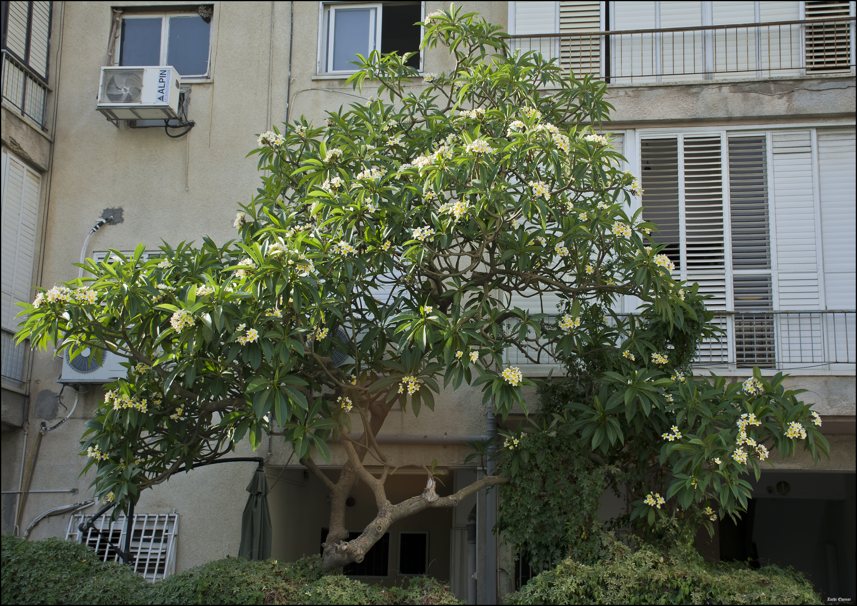 Plumeria rubra, Kiryat Sefer Park, Tel Aviv, Israel